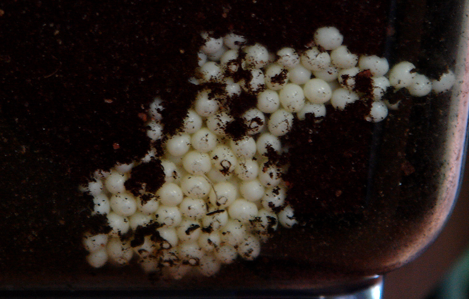 Achatinas' eggs.